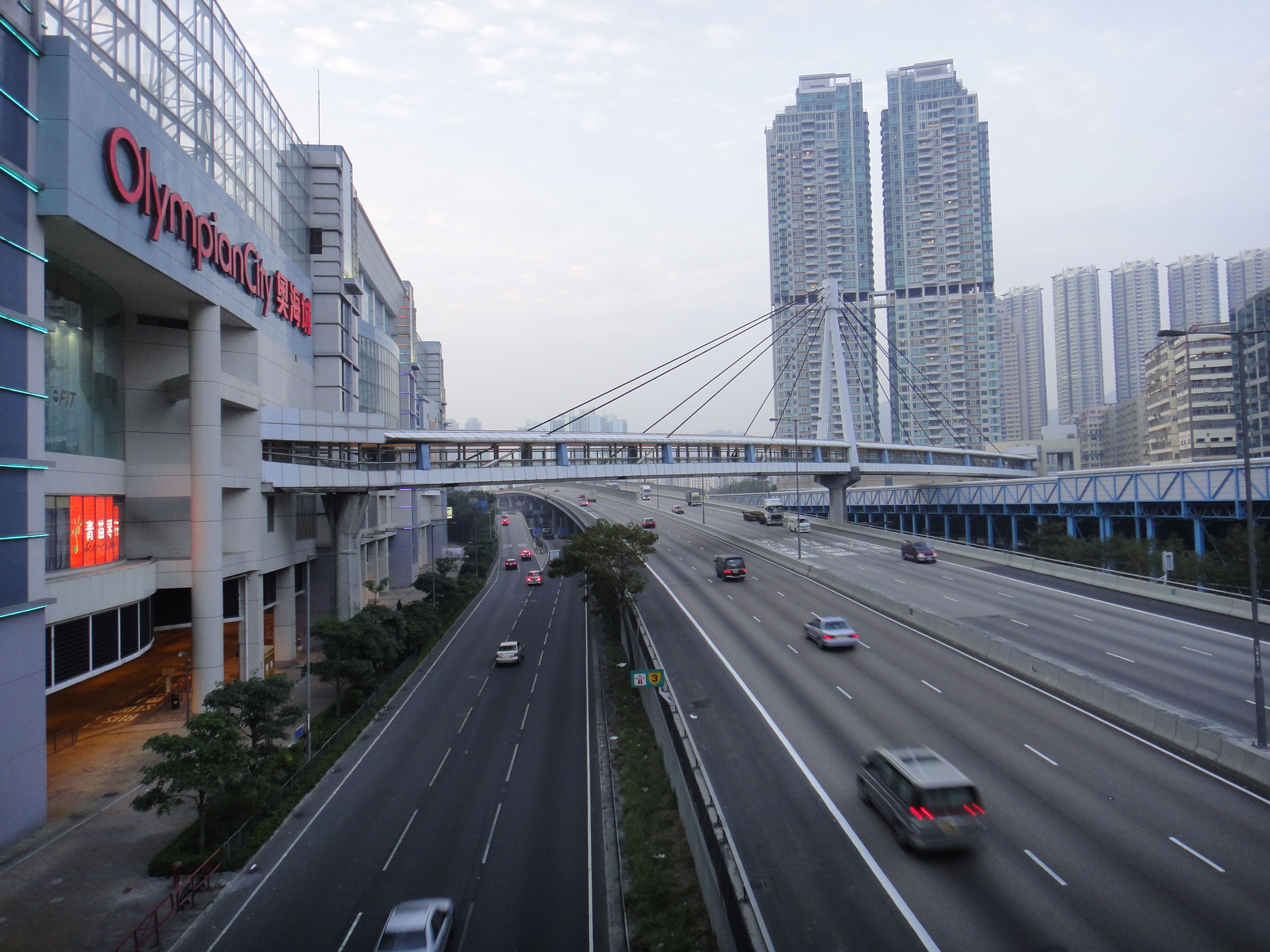 Tai Kok Tsui walking Bridge